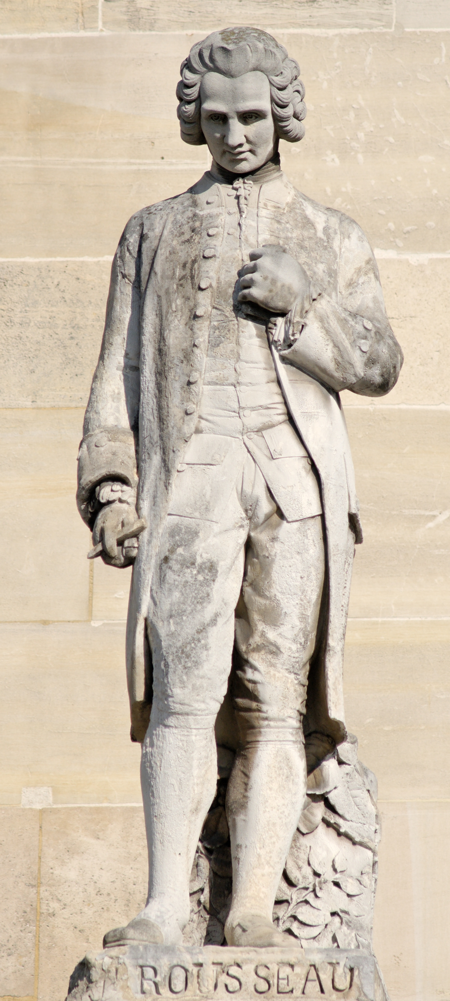 9th statue from Pavillon Turgot to Pavillon Richelieu, Cour Napoléon in the Louvre.